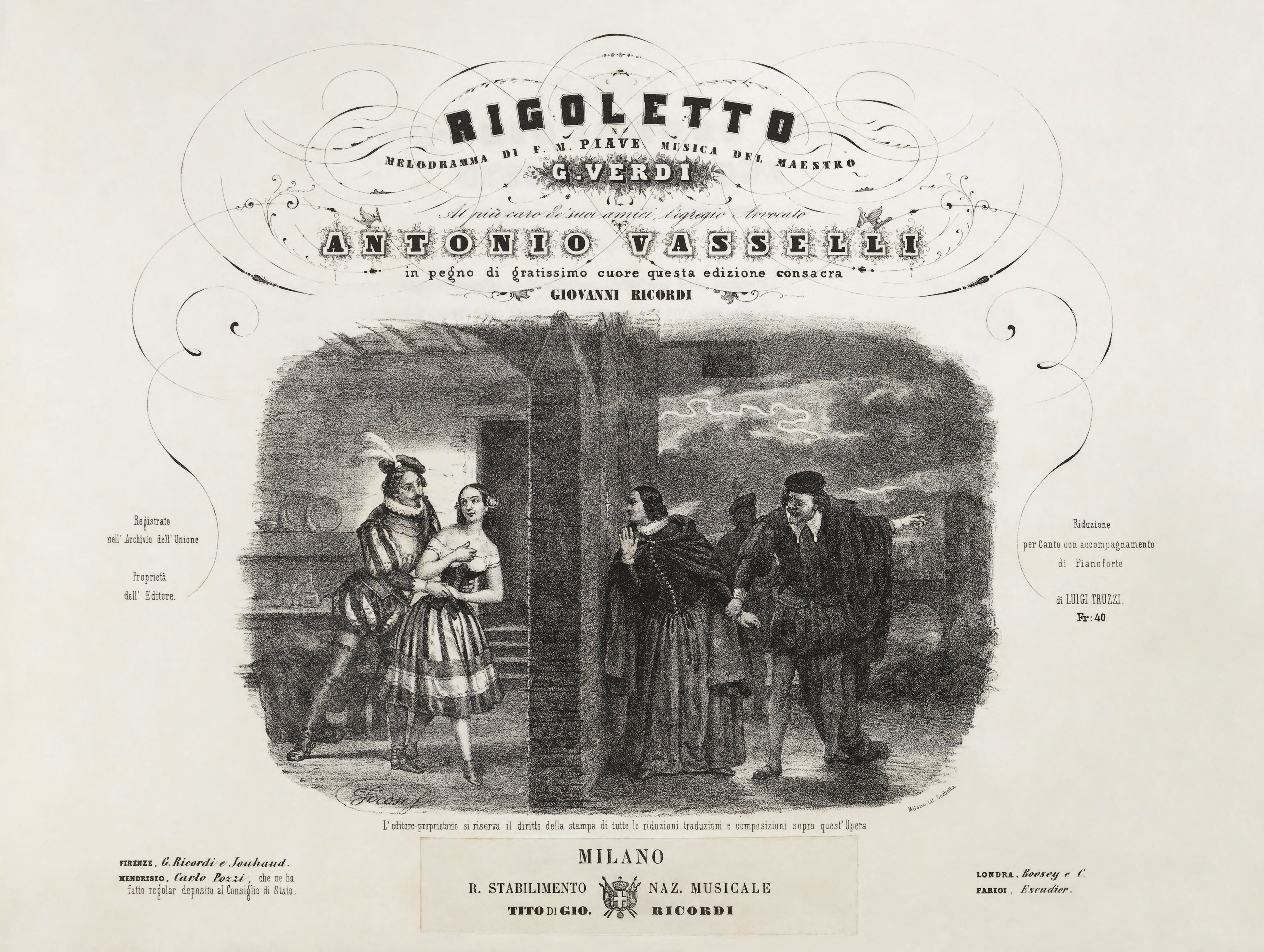 Roberto Focosi's illustration from the variant first edition of the vocal score of Giuseppe Verdi's Rigoletto. Pretty obviously the "Bella figlia dell'amore" scene. Changes made: Cleaned up the spots and stains. The pasted-on paper wasn't straight, so I rotated and centred it. Levels adjusted, other things in that line.